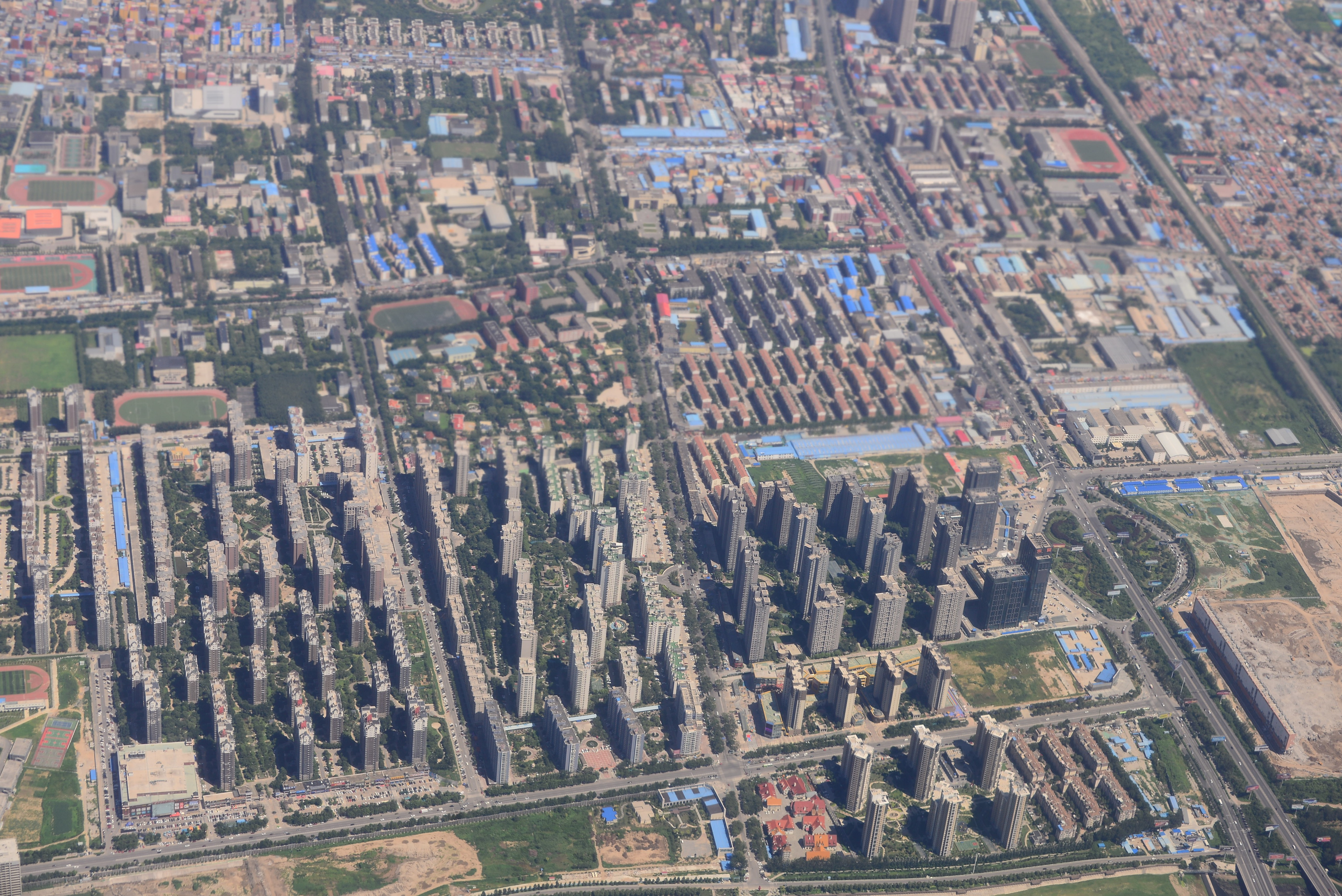 On the final to Beijing Capital Airport. The area (outside the city) is covered by tall residential buildings.